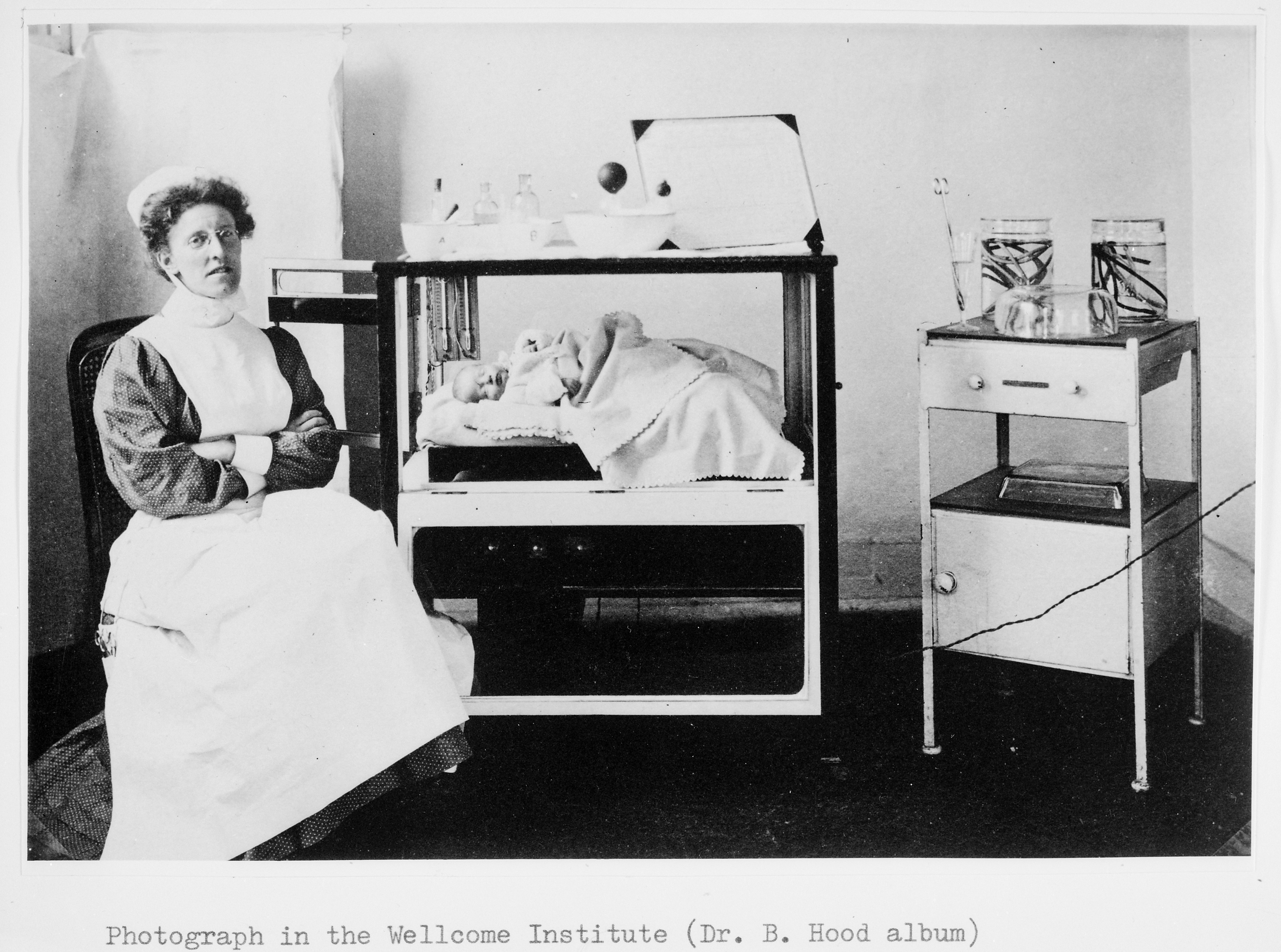 General Lying In Hospital, York Road: nurse sitting with baby in incubator. Photograph, 1908. Iconographic Collections Keywords: Physicians; Child Care; Basil Hood